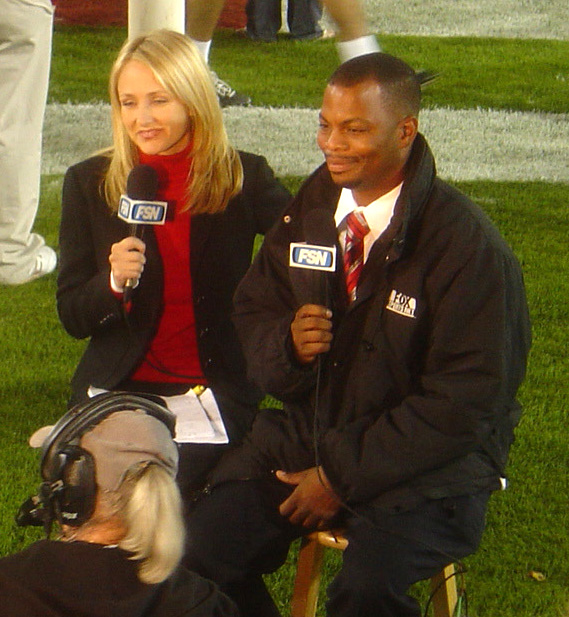 Lindsay Soto and John Jackson doing sideline reporting at a USC game.